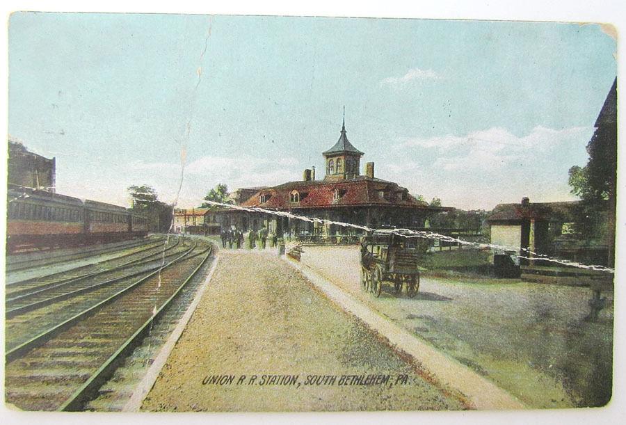 1909 divided back postcard of the first Bethlehem Union Station